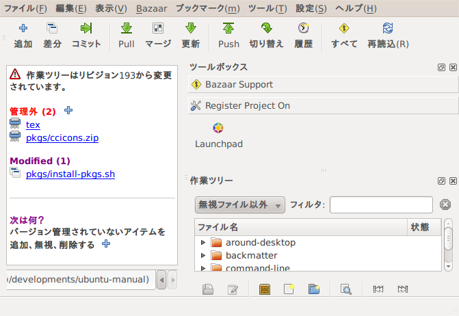 A screen shot of Bazaar Explorer (Japanese)